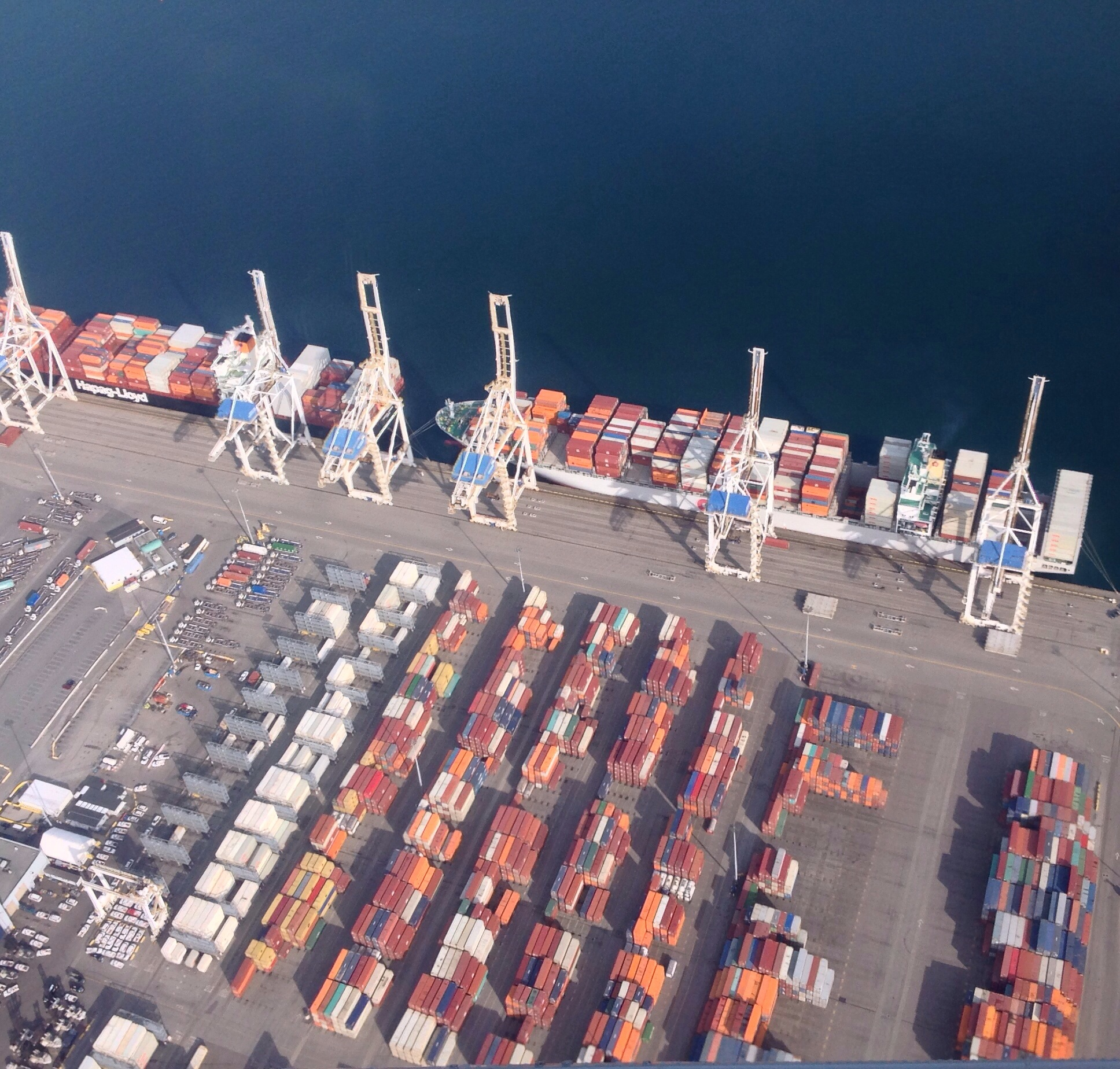 An aerial view of part of the Roberts Bank Superport showing a container ship. Taken in 2014.